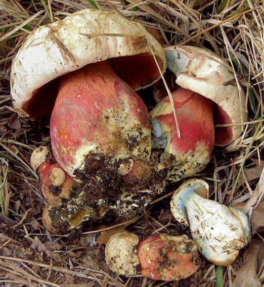 Boletus satanas - Lajatico (PI) - 10/2006